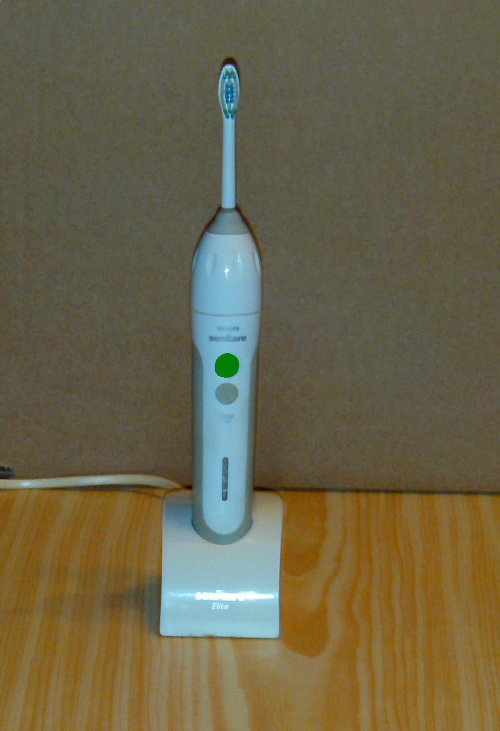 Electric Toothbrush, (Philips Sonicare, Elite Pro HX 7800)